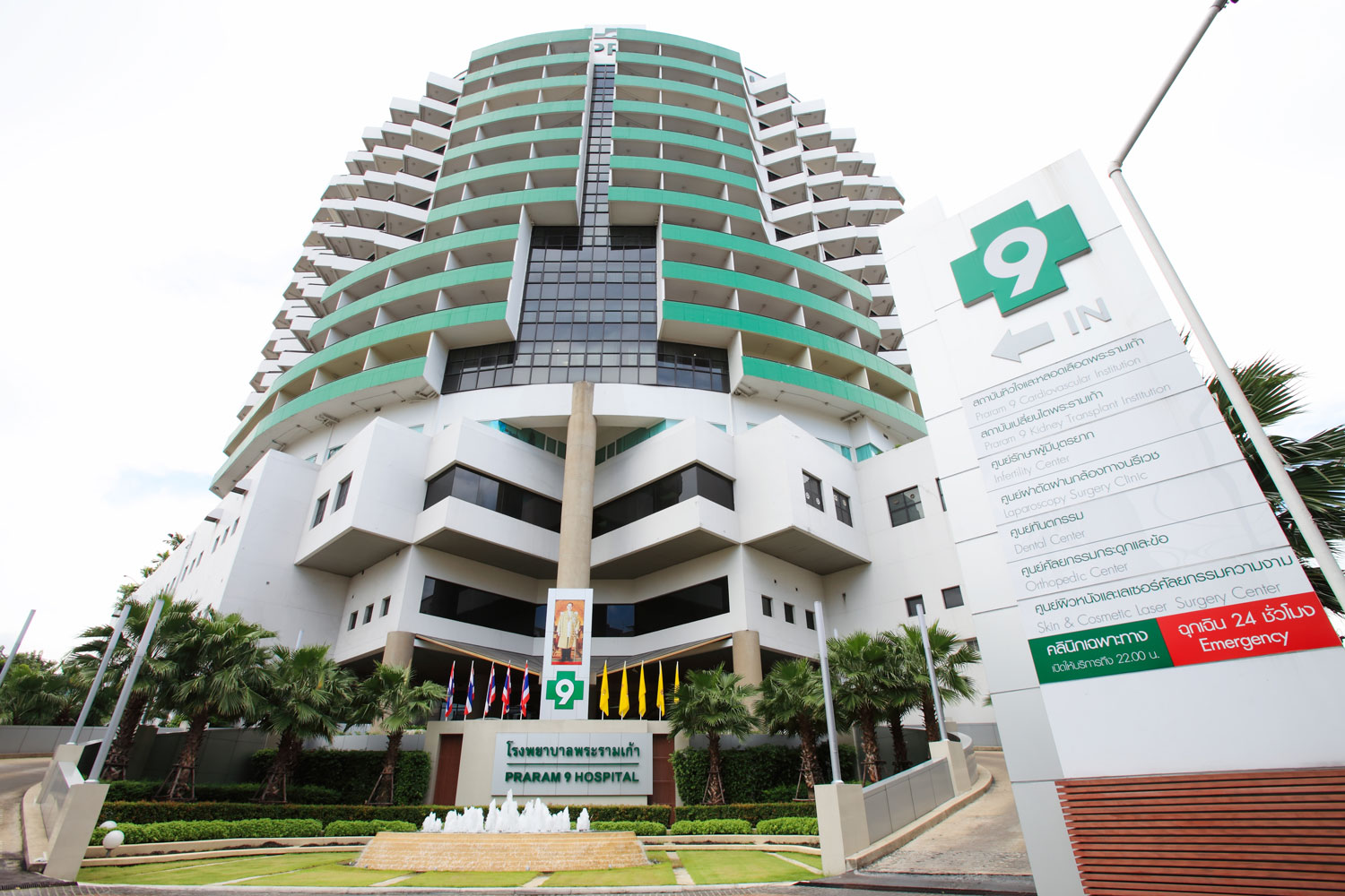 Praram 9 Hospital Building